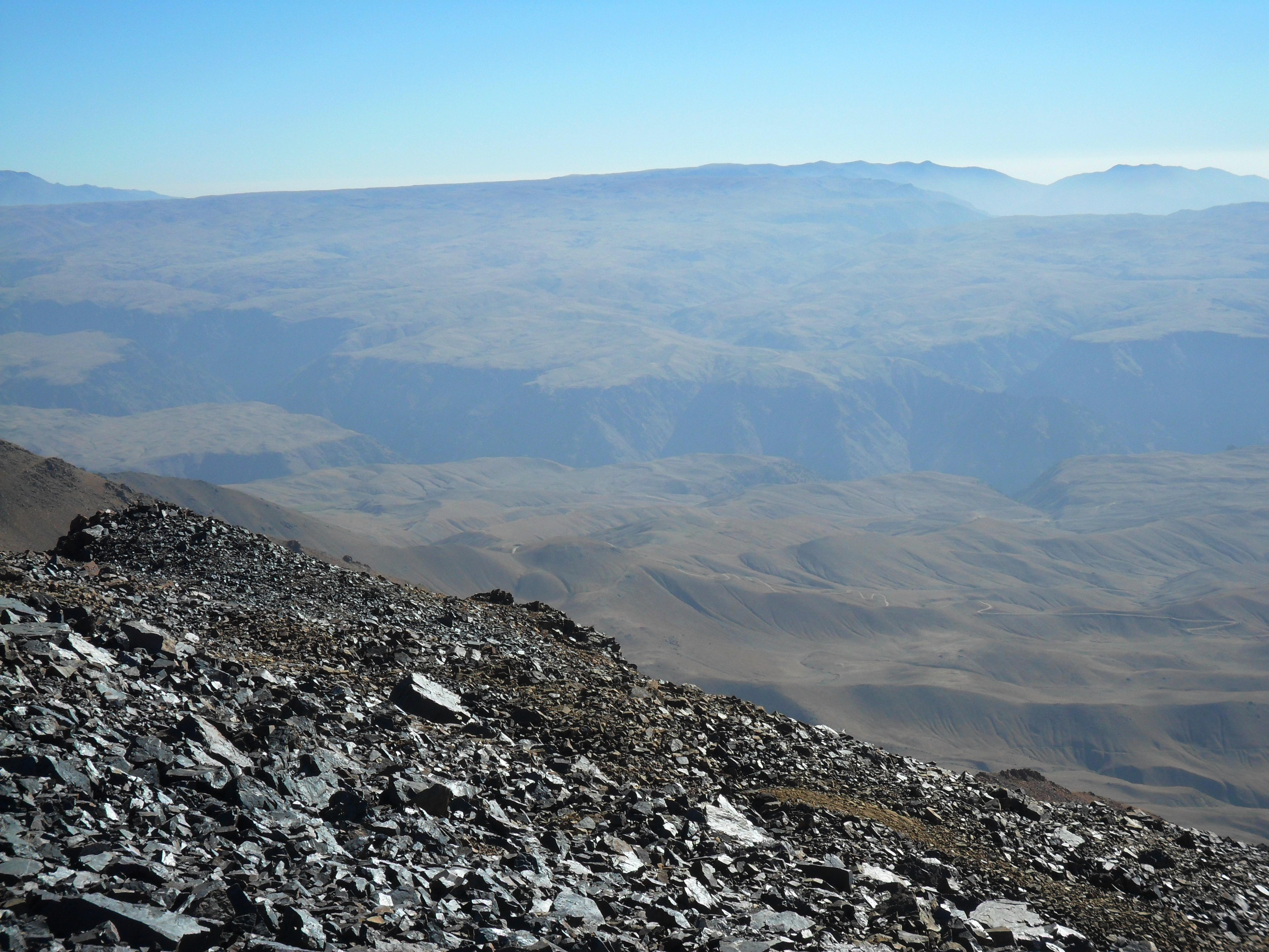 Akhangaran valley. View from Karakush peak. Tashkent area. Uzbekistan.